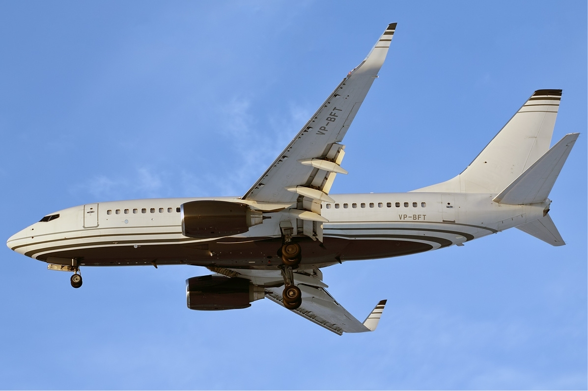 Jet Aviation Business Jets Boeing 737-700